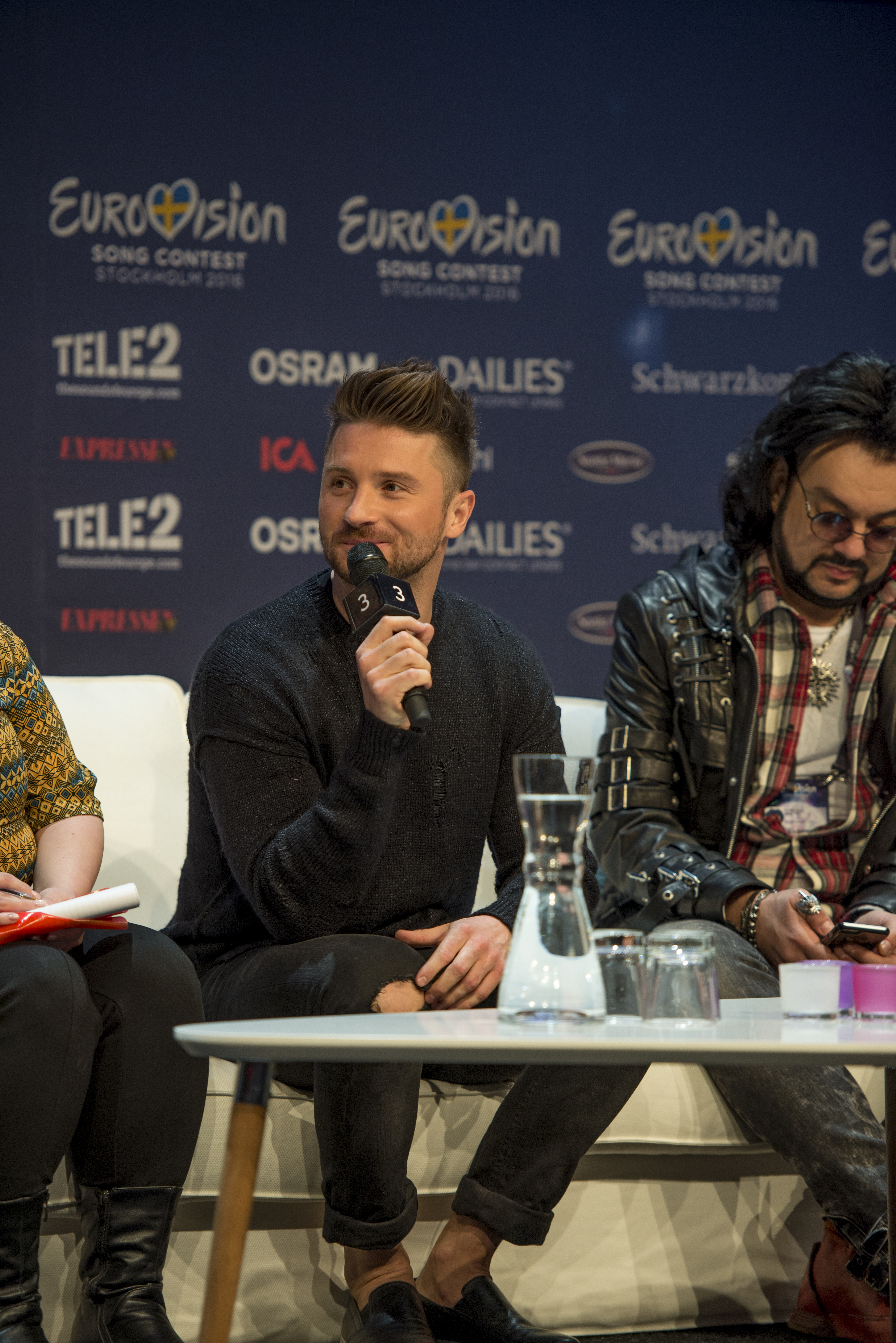 Sergey Lazarev at a Meet & Greet during the Eurovision Song Contest 2016 in Stockholm. (Help translate this text)